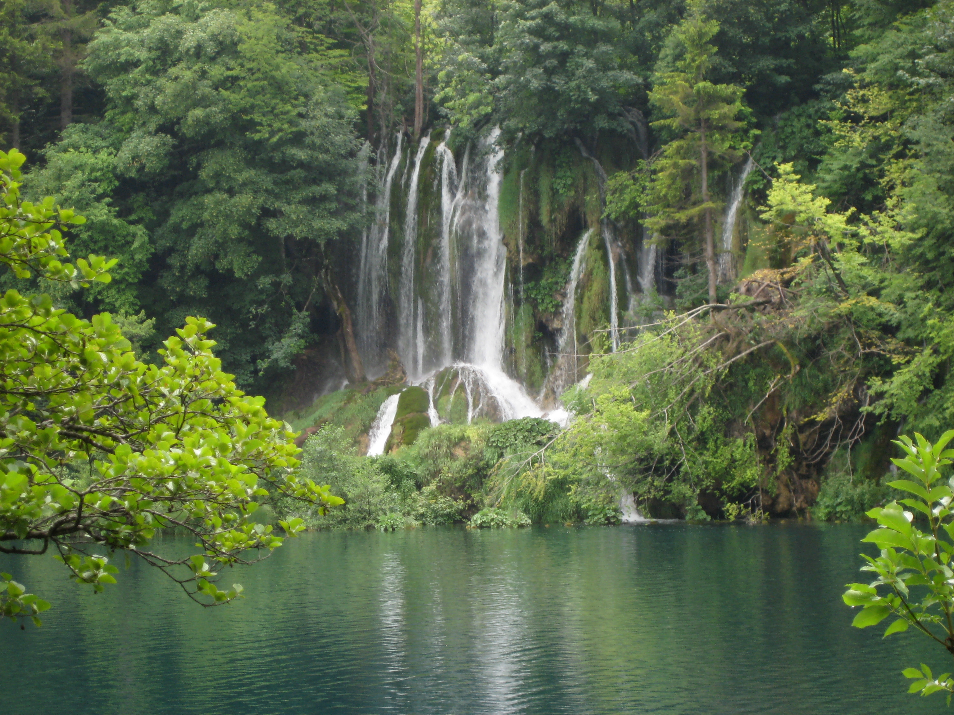 Plitvice Lakes National Park (Croatia).